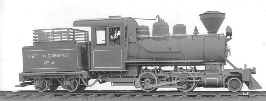 Locomotive from Engenho Central de Quissamã